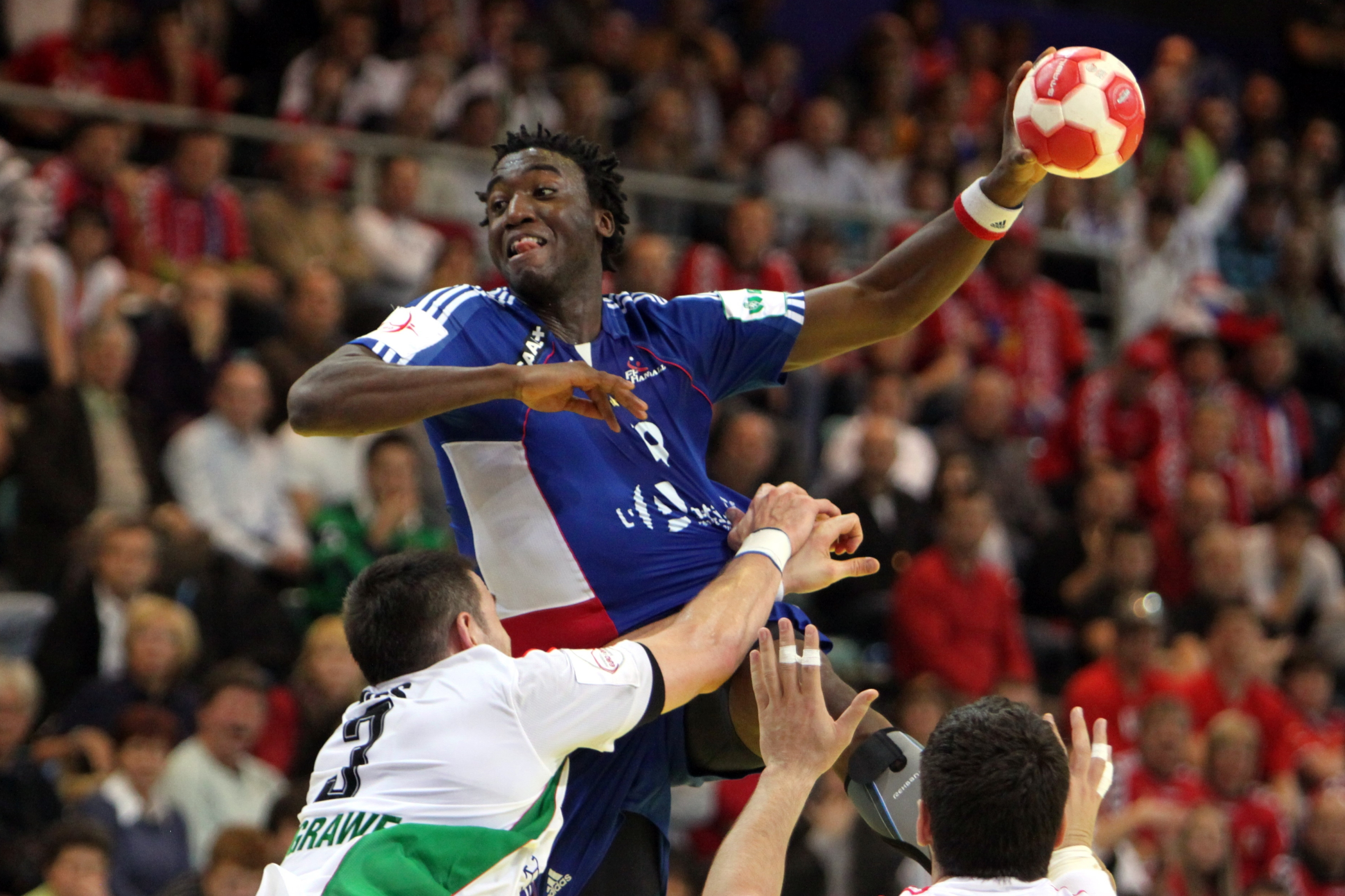 2010 European Men's Handball Championship Group D: France vs Hungary 29:29 — Luc Abalo (France national handball team) could not be stopped by Ferenc Ilyés (Hungary national handball team)